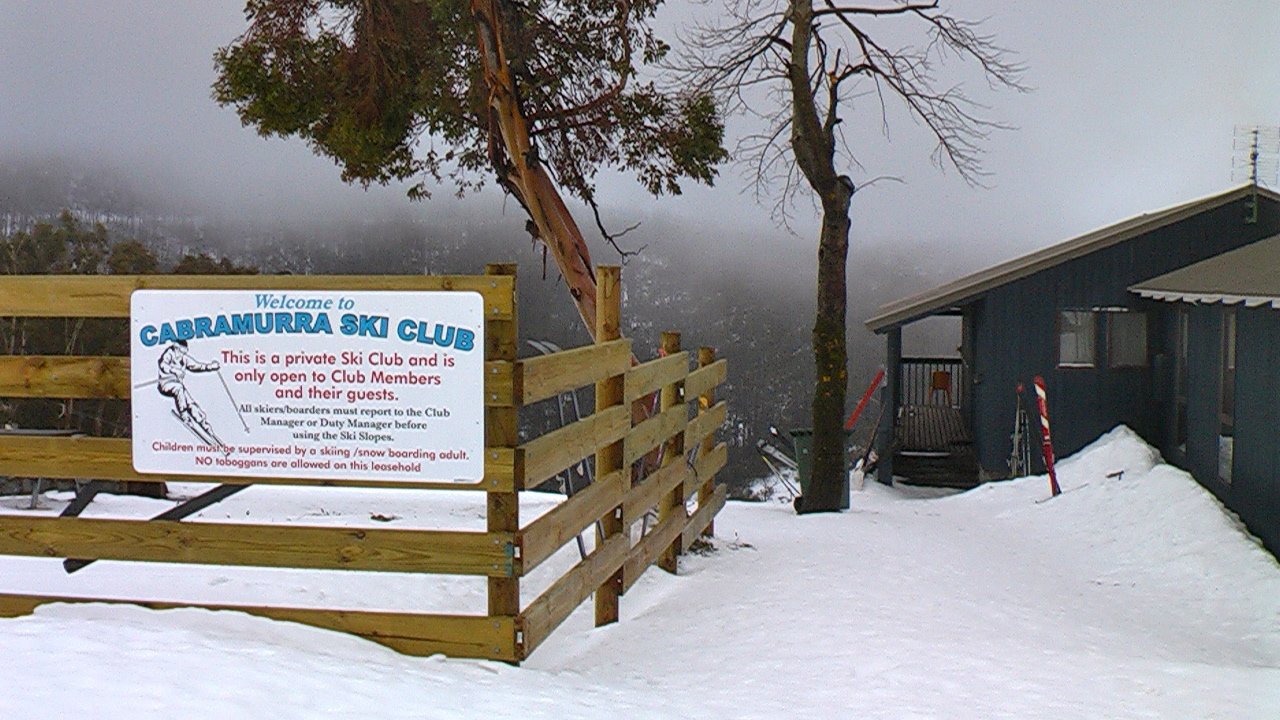 Cabramurra Ski Club. A private ski slope located at Cabramurra, New South Wales, Australia.